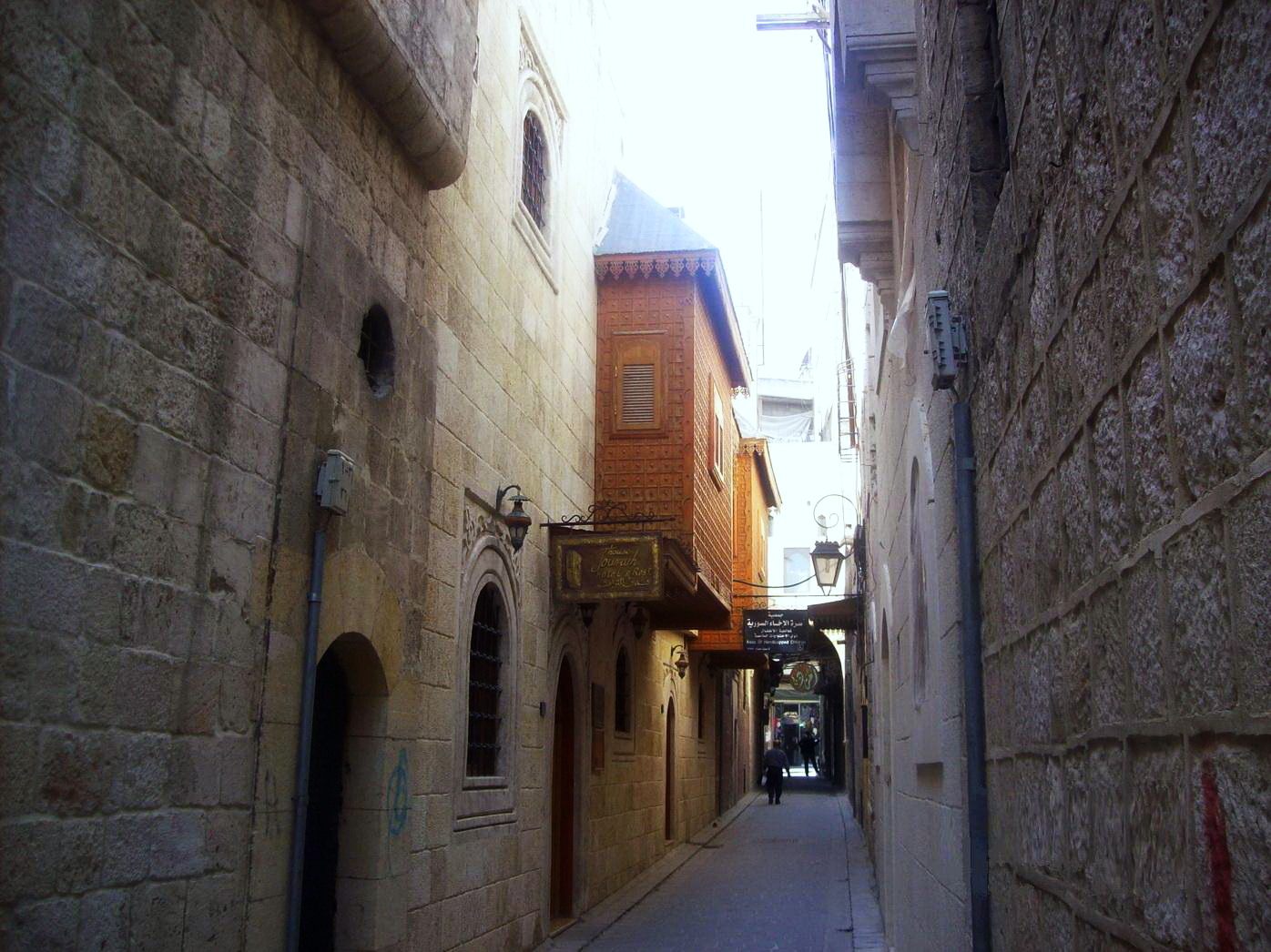 Jdeydeh quarter in Aleppo, Dar Basile alley and an old hotel